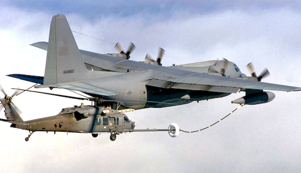 The HC-130 "Hercules" airplane, and the HH-60G Pavehawk helicopter refueling over Montauk Point. (Courtesy Photo: USAF ANG 106)